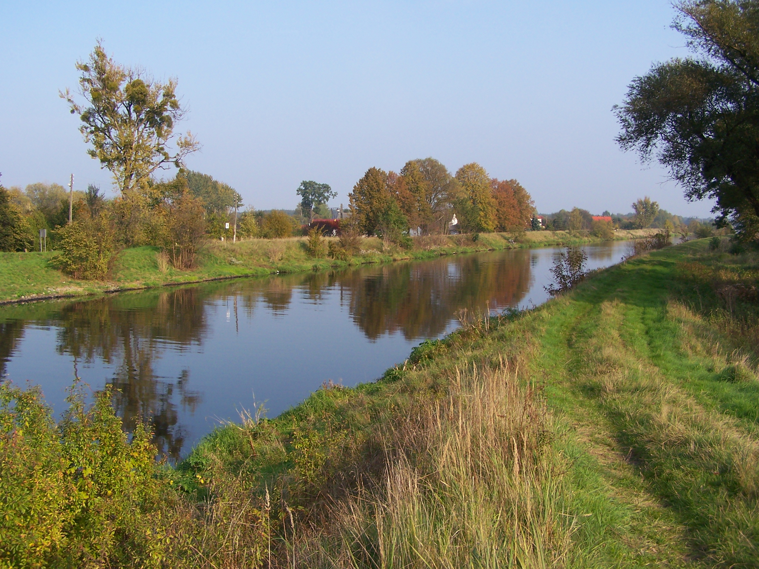 Gliwice Canal in Pławniowice (Poland).